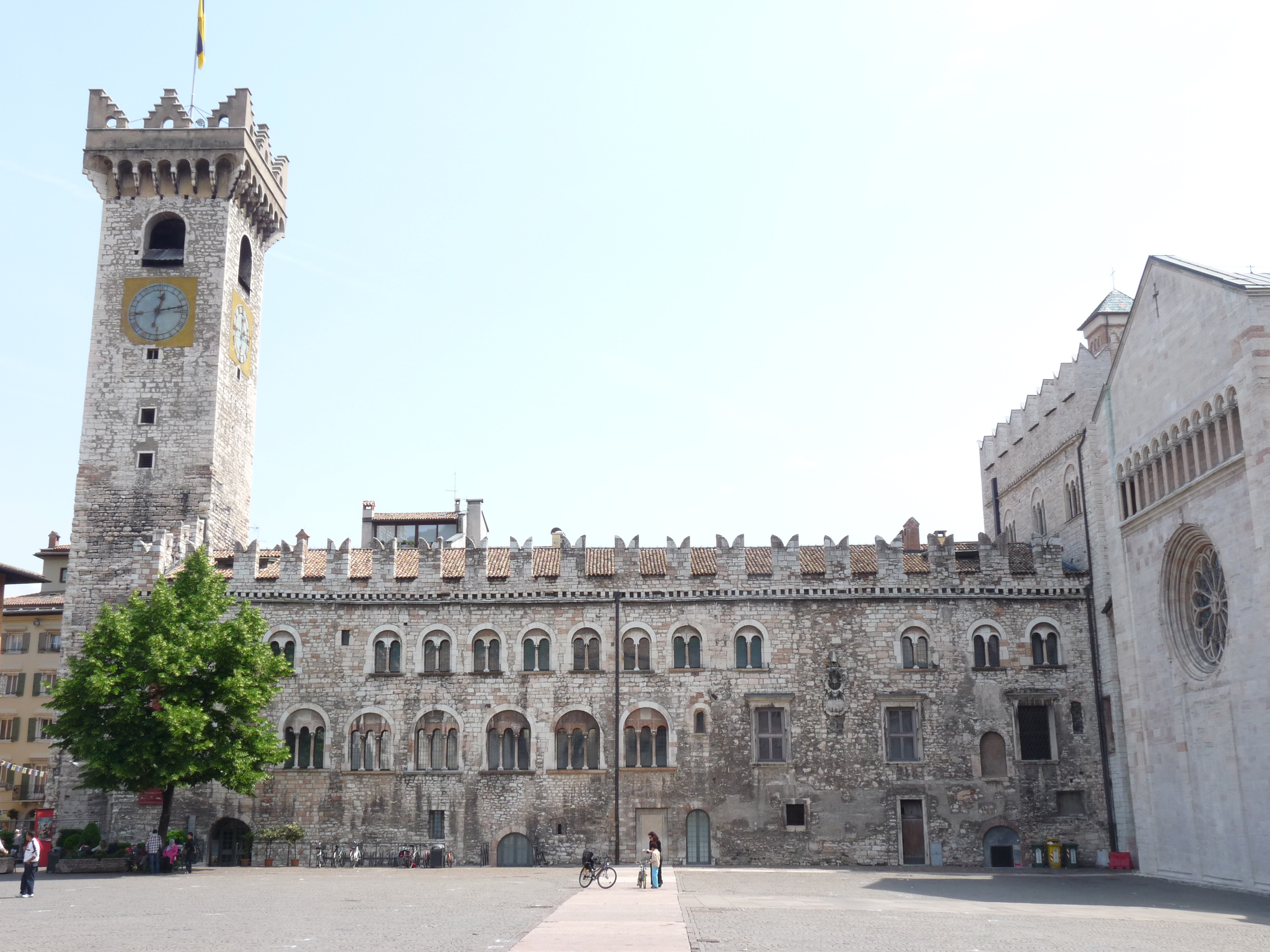 Trento (Italy): Palazzo Pretorio in Piazza del Duomo, with the Torre Civica (Civic Tower) on the left and the cathedral of Saint Vigilius on the right. The stone slabs at the center are placed where the "Roggia Grande" water channel once flowed